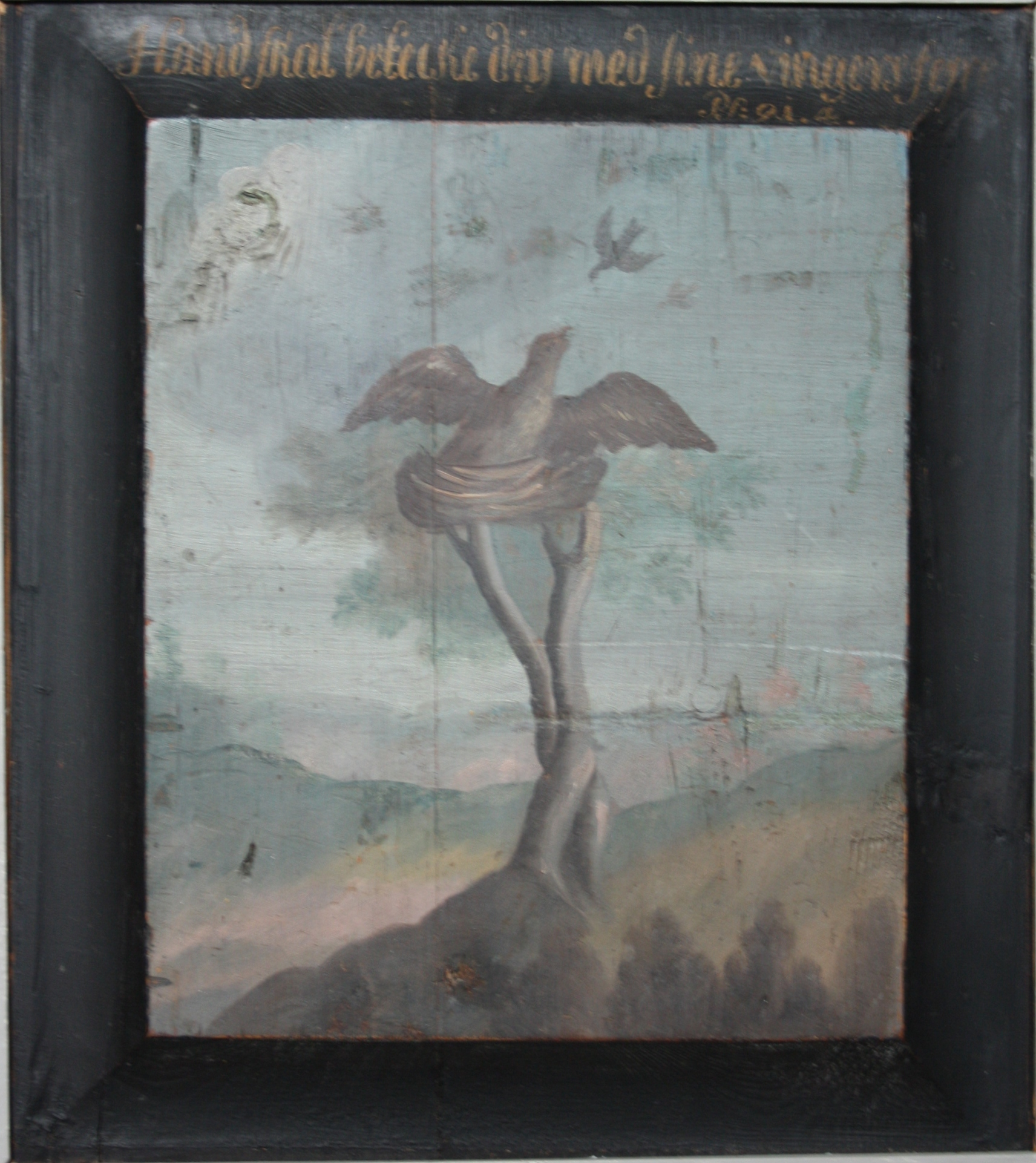 Allegoric painting by Mogens Christian Thrane in Sortebrødre Church, Viborg, Denmark. Text: He will cover you with his pinions and under his wings you will find refuge. (Psalm 91,4)